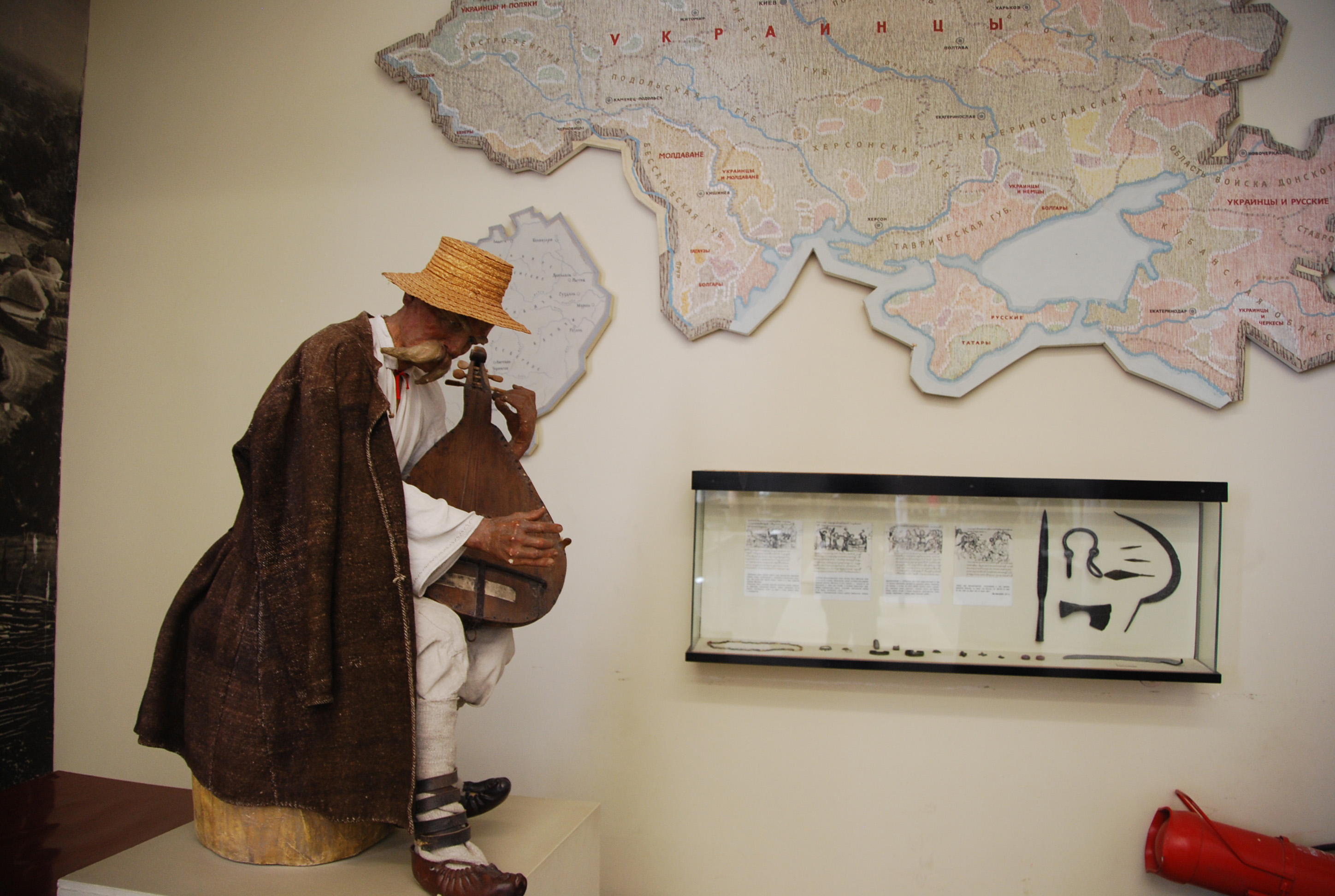 One of the musical instruments on display at Russian Museum of Ethnography, St. Petersburg, Russia